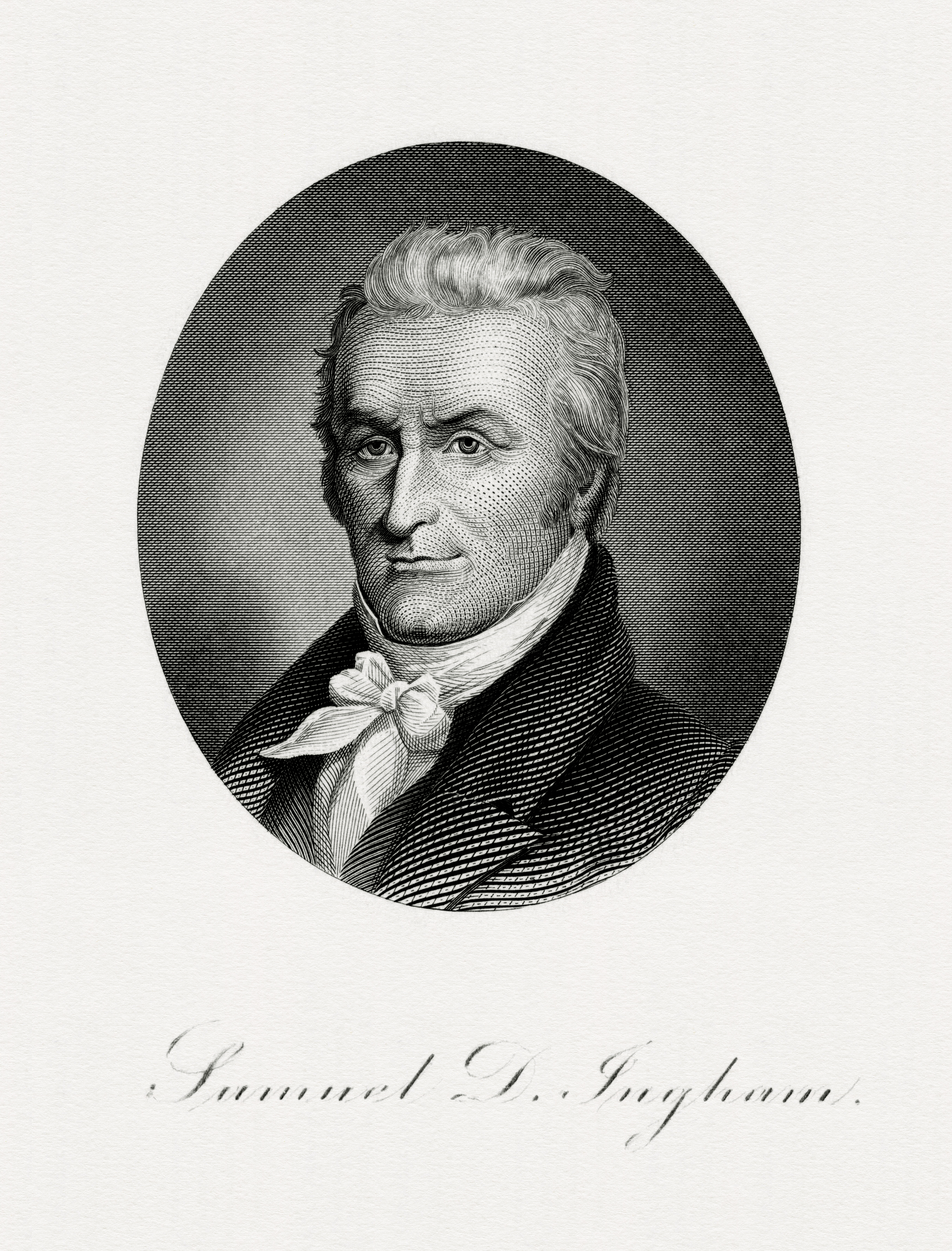 Engraved BEP portrait of U.S. Secretary of the Treasury Samuel D. Ingham